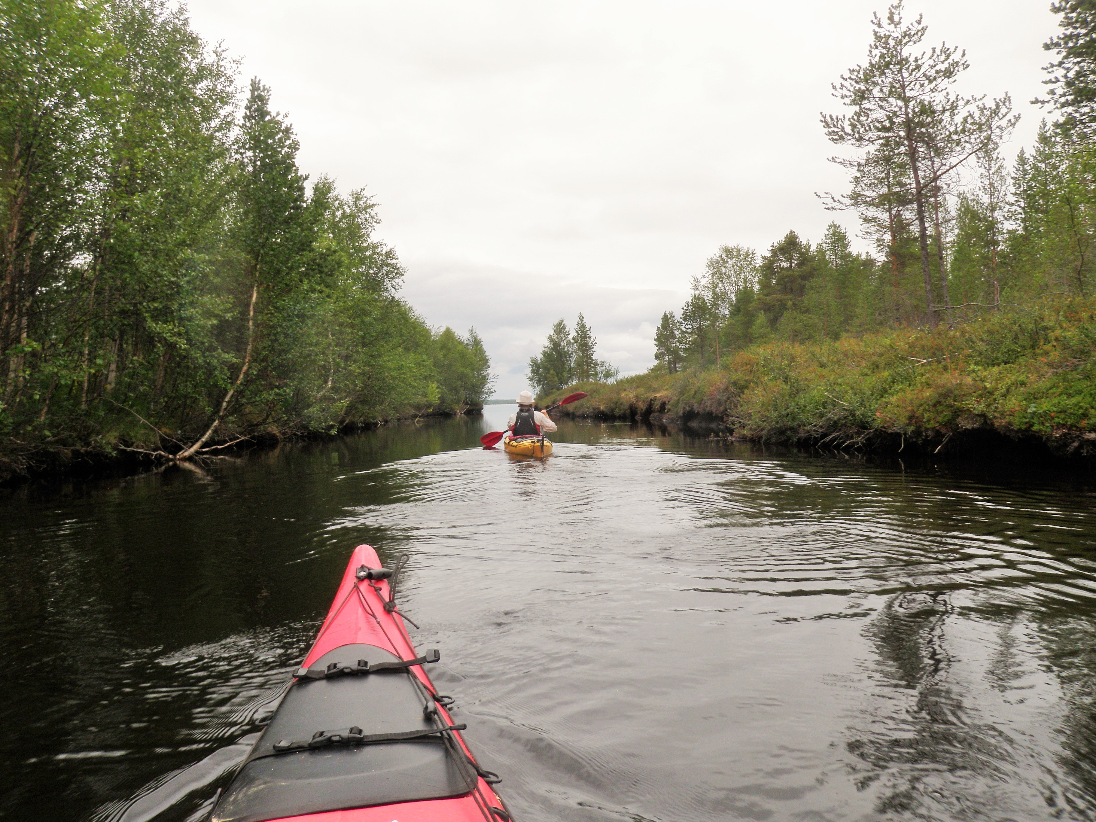 Kuuva channel, Lake Inari